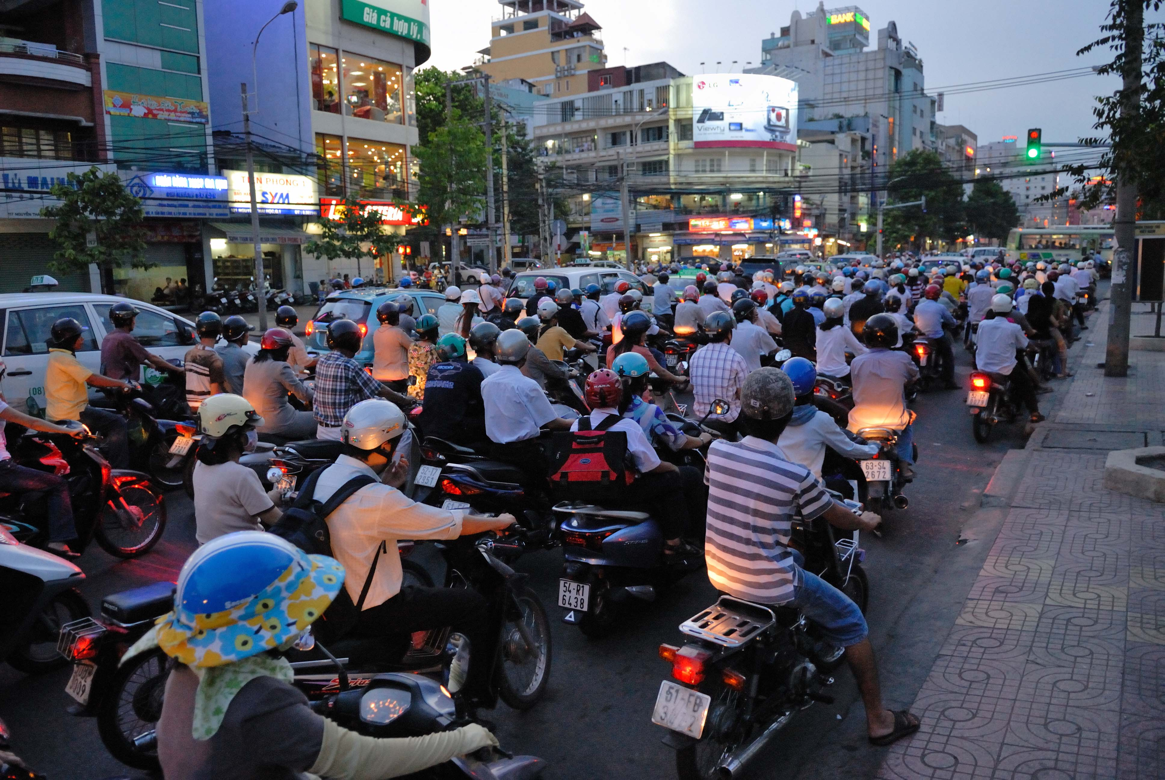 While in China prices are rising many companies shift their plants to vietnam. If this trend does continue more and more people will change their motorbike into a car. Saigon, Vietnam